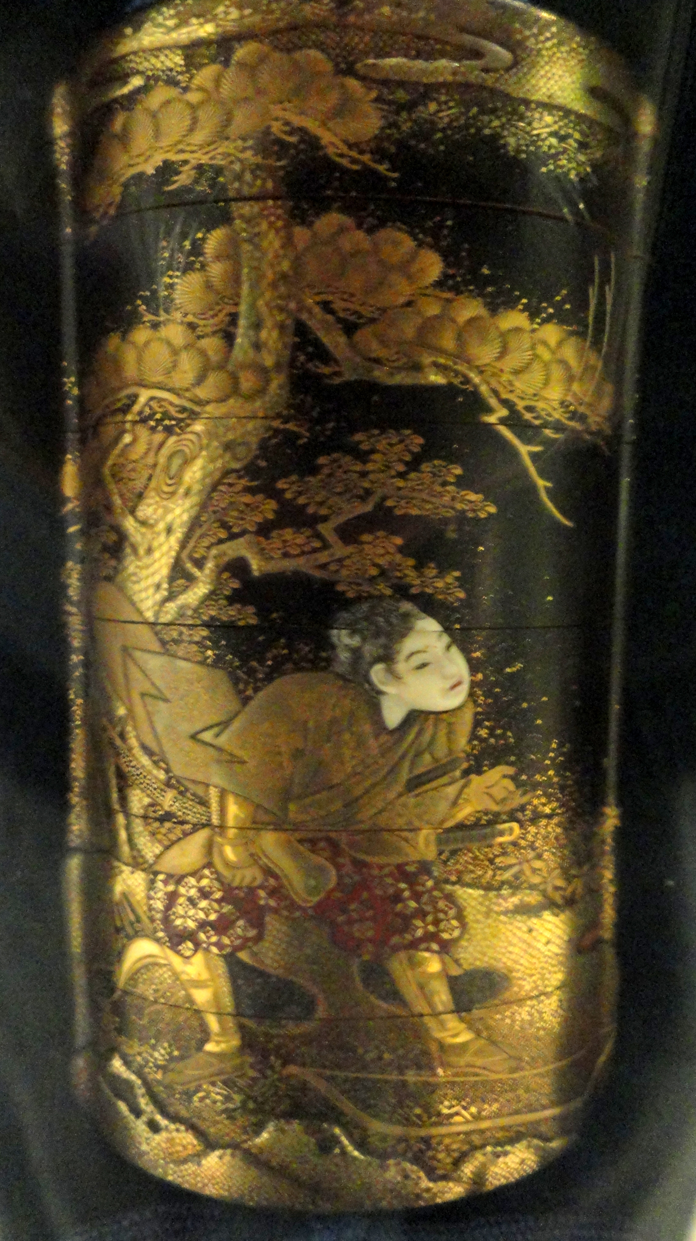 Exhibit in the George Walter Vincent Smith Art Museum, 21 Edwards Street, Springfield, Massachusetts, USA. This item is old enough so that it is in the public domain. The museum permitted photography without restriction.